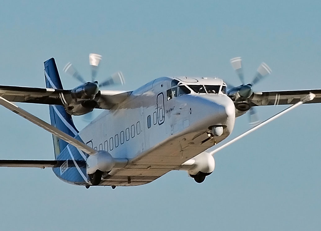 North Las Vegas Airport (IATA: VGT, ICAO: KVGT, FAA LID: VGT) Photo: TDelCoro Dec-14-2010